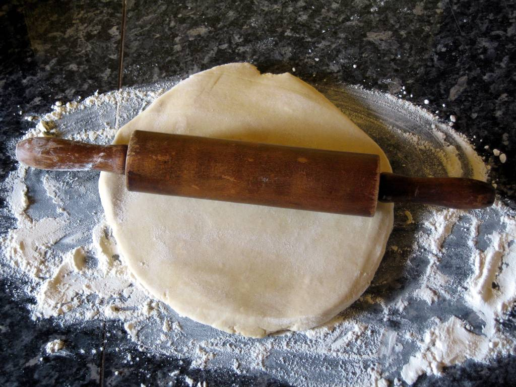 Shortcrust pastry recipe, step 5